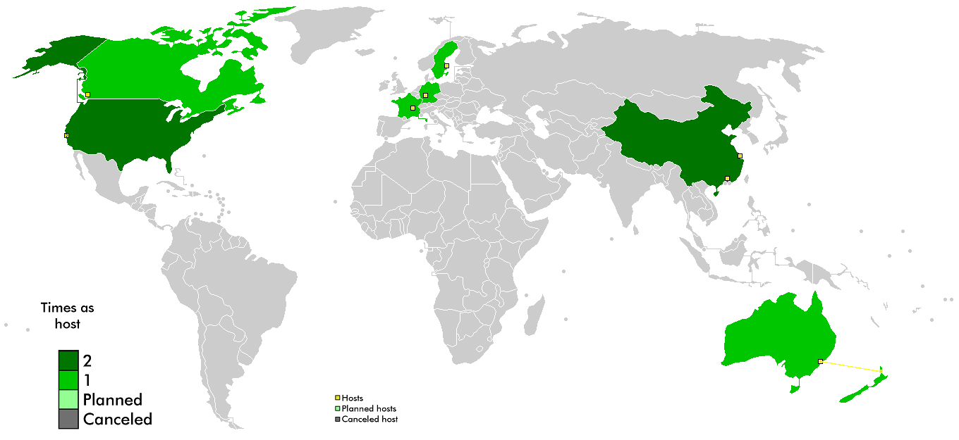 FIFA Women's World cup hosts